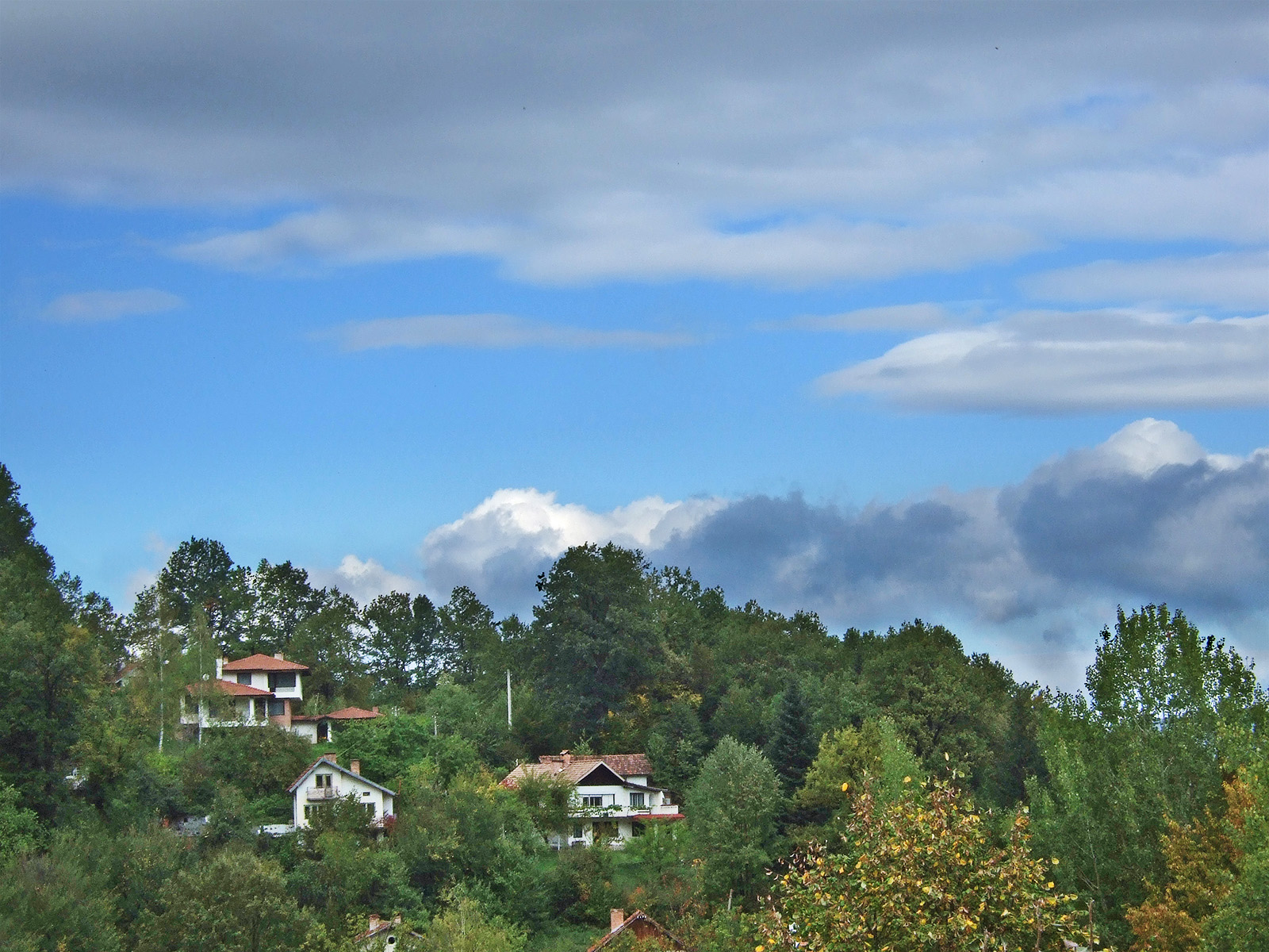 The village of Oreshak, central Bulgaria Вилички се гушат сред горичка в хълмовете около село Орешак, Троянско.